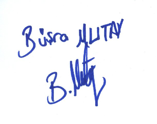 Signature of Turkish athlete Büsra Mutay